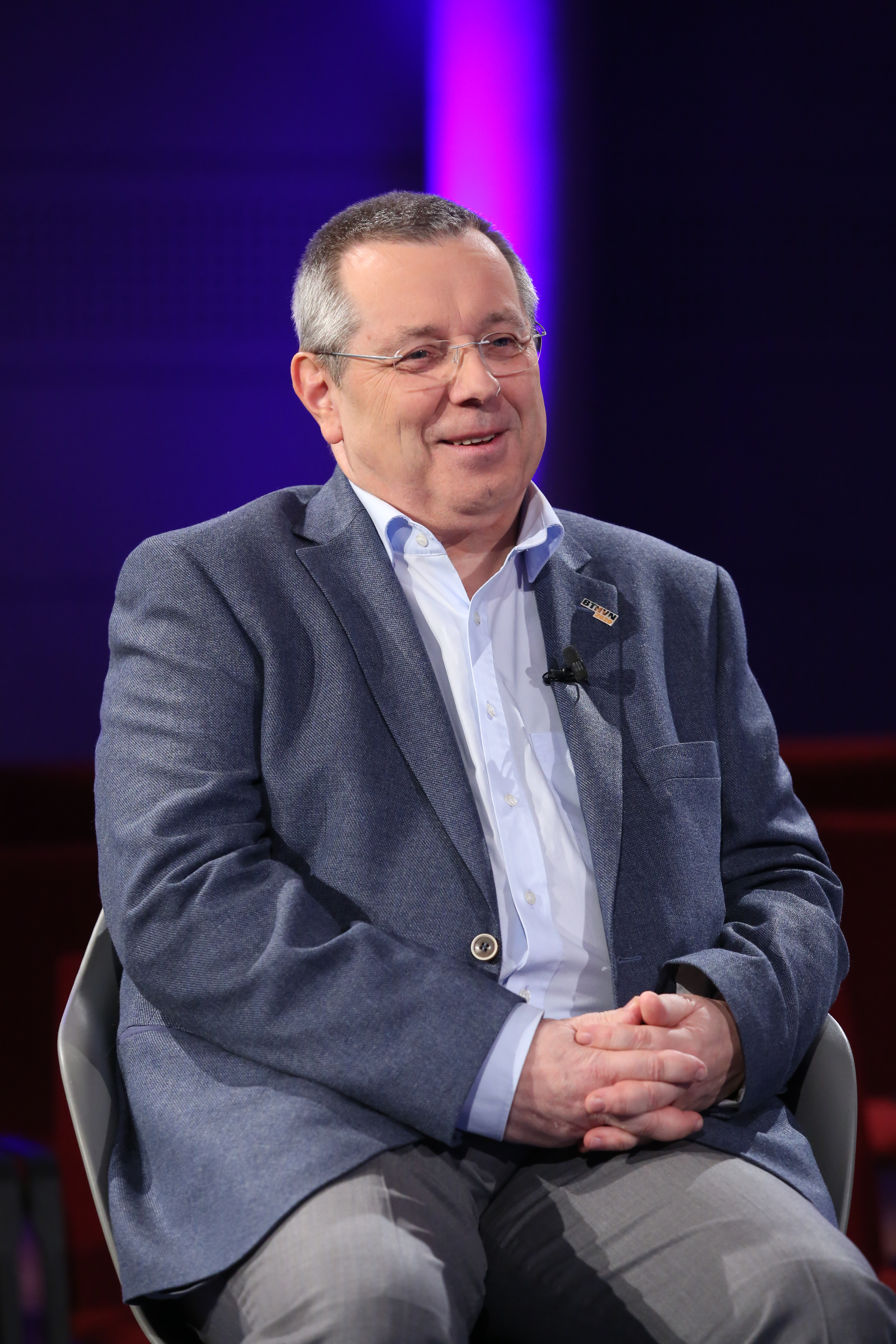 Stephan Eisel 36th Bonn Economic Forum (Bonner Wirtschaftstalk), Kunst- und Ausstellungshalle der Bundesrepublik Deutschland (Federal Art and Exhibition Hall), Bonn